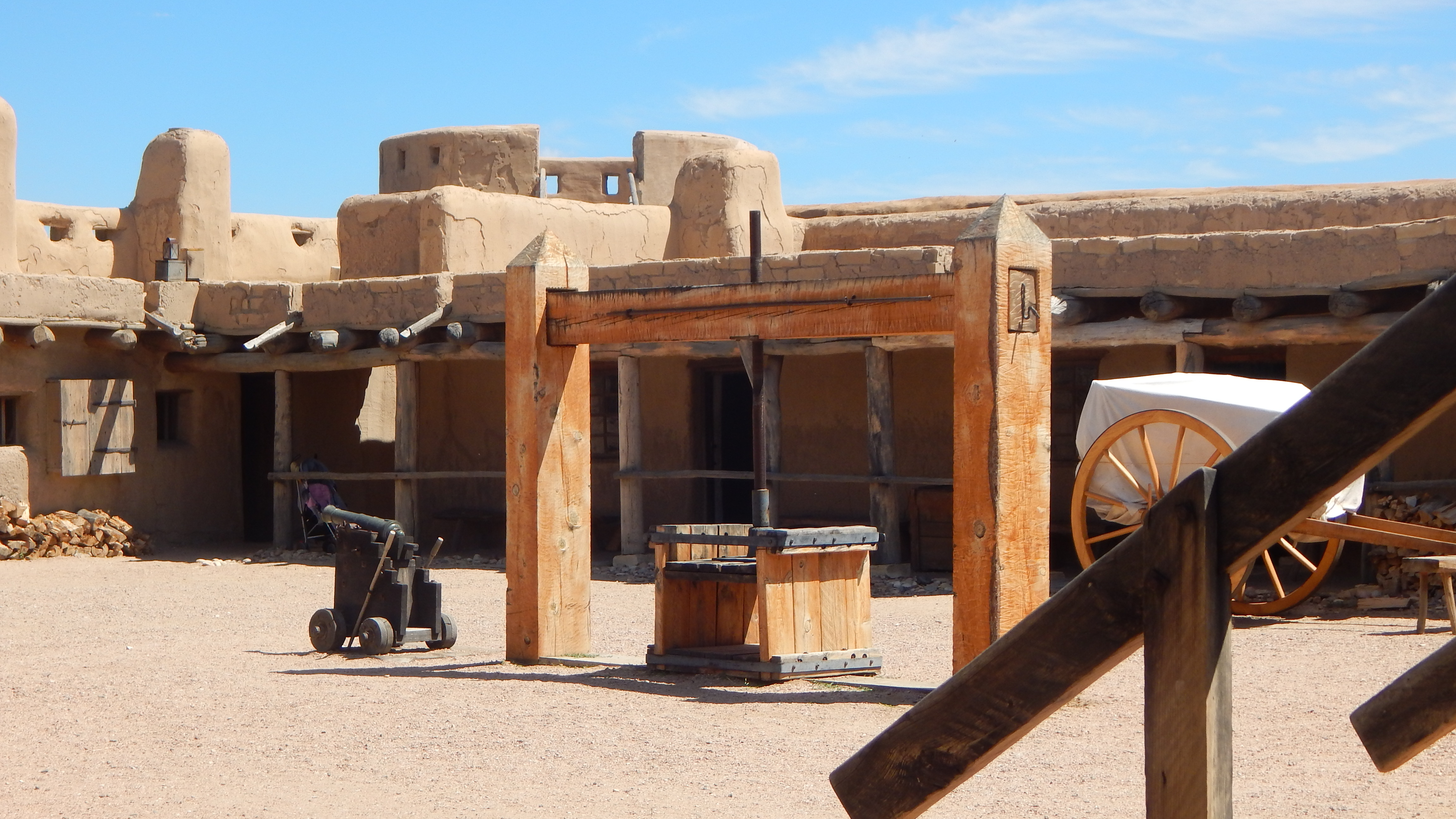 This is an image of the large fur press, housed in the courtyard, of Bent's Old Fort.